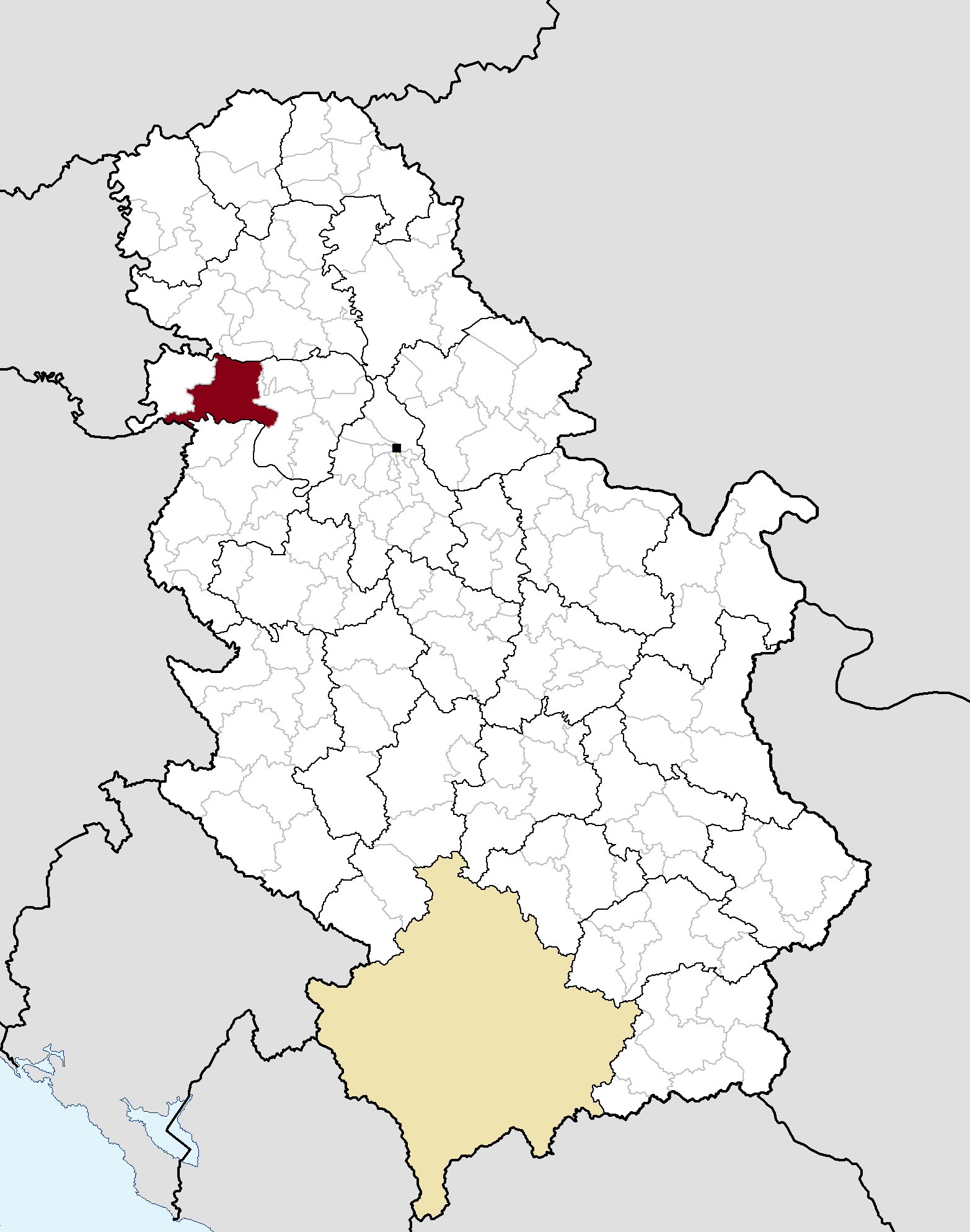 Municipal location in Serbia